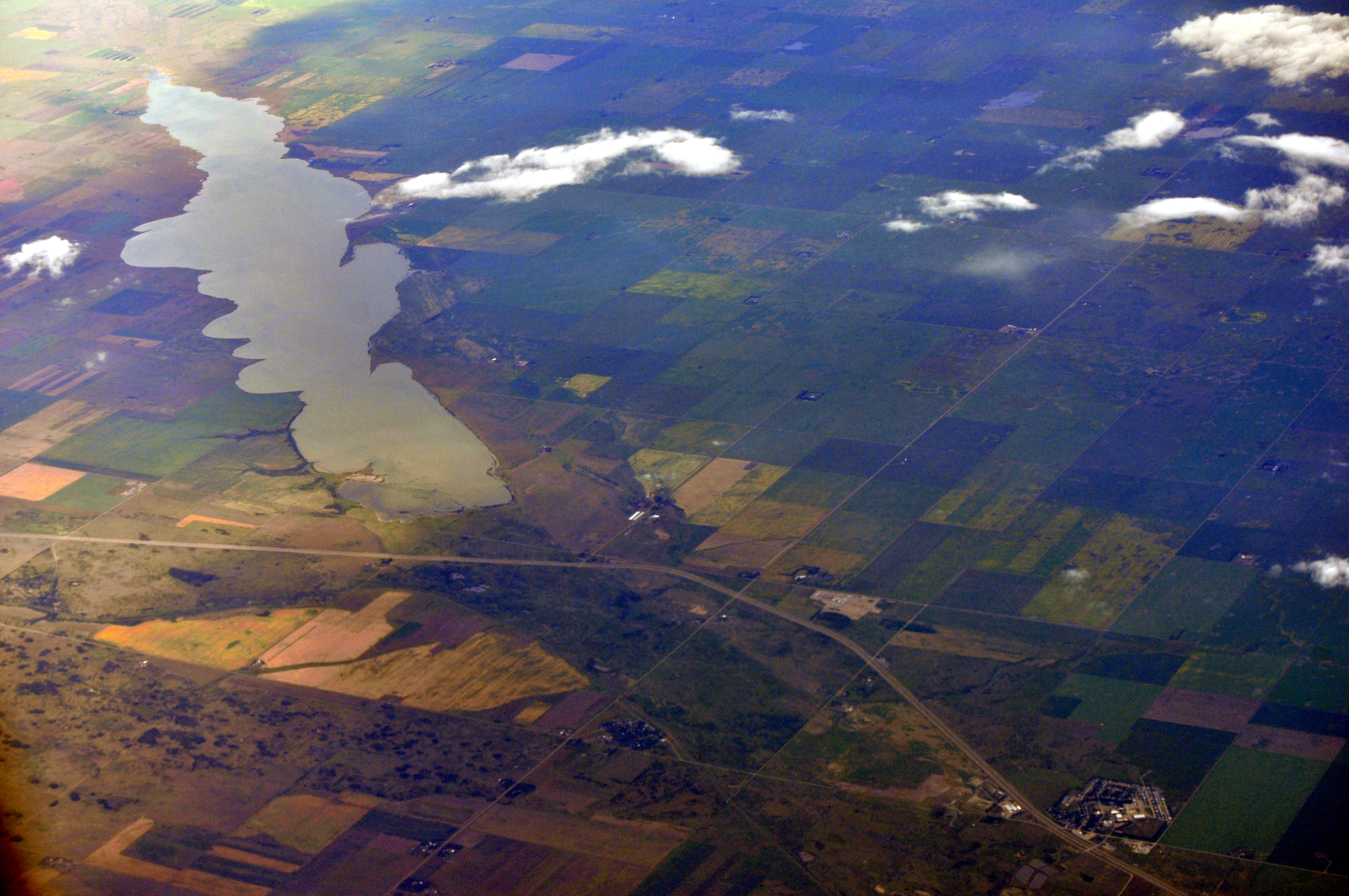 Aerial view from roughly south by southeast of Pelican Lake, Saskatchewan, northwest of Moose Jaw. There are apparently at least two lakes of this name in Saskatchewan; this is the one centered roughly at: Object location50° 31′ 48″ N, 105° 59′ 45.6″ W